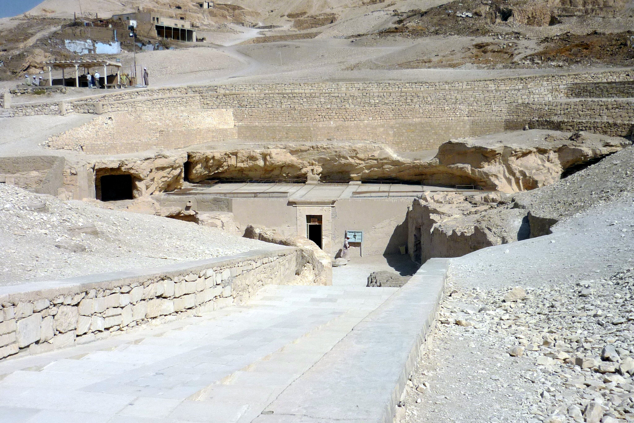 Ramose tomb, Theban Necropolis, Egypt